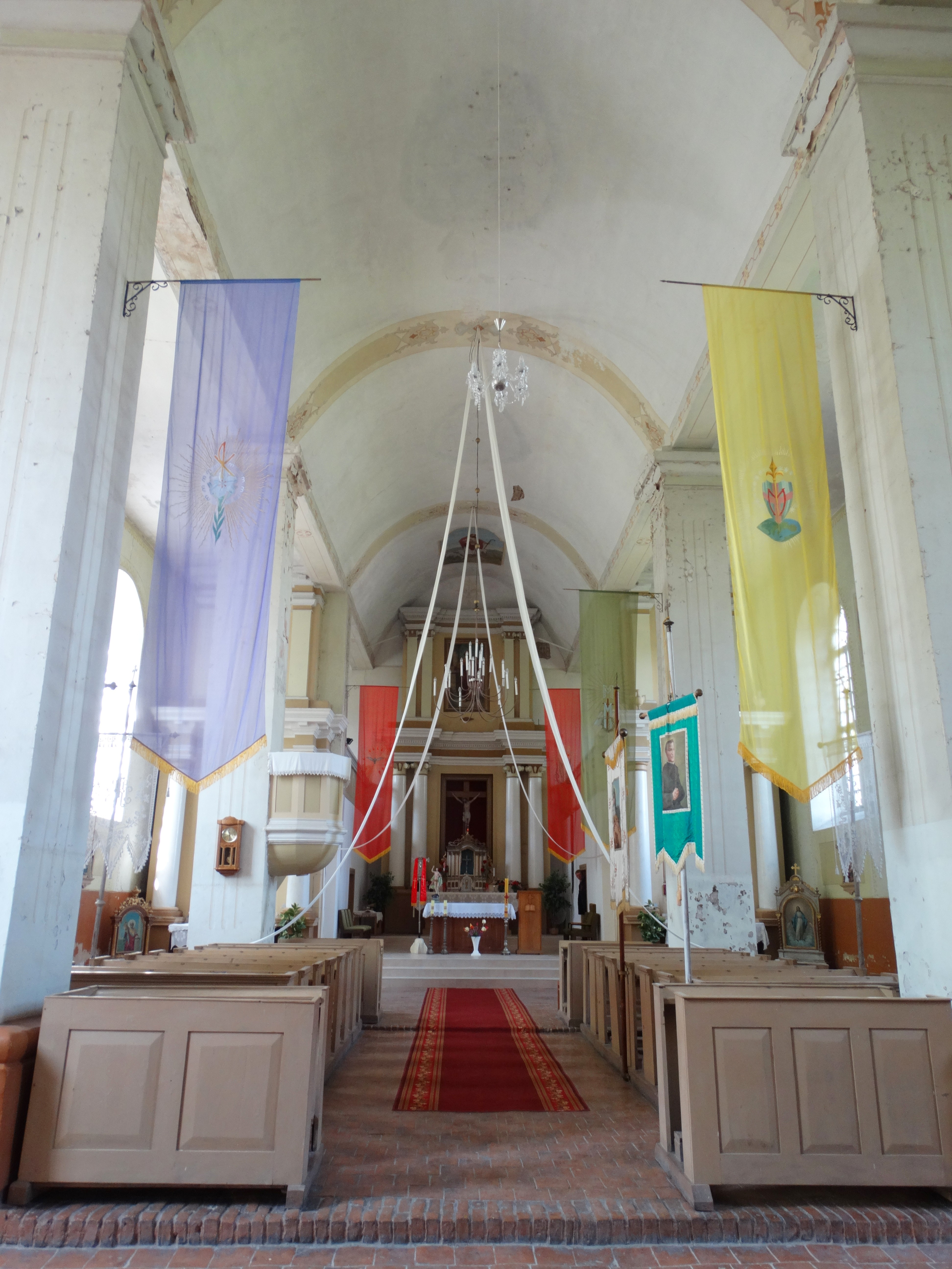 Catholic church, interior, Žeimelis, Lithuania